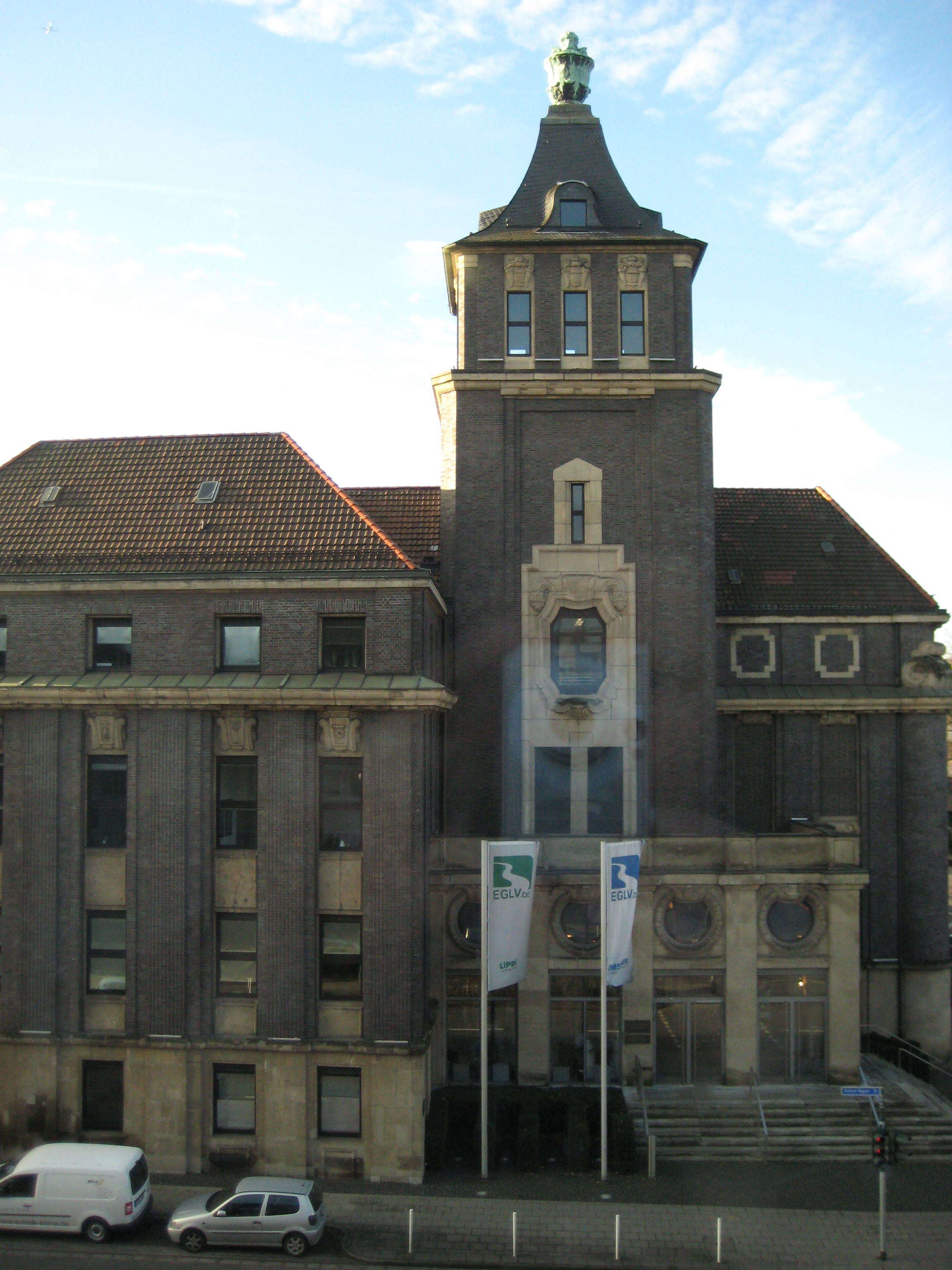 Headquarter of the Emschergenossenschaft in Essen (Germany), constructed 1910 by Wilhlem Kreis